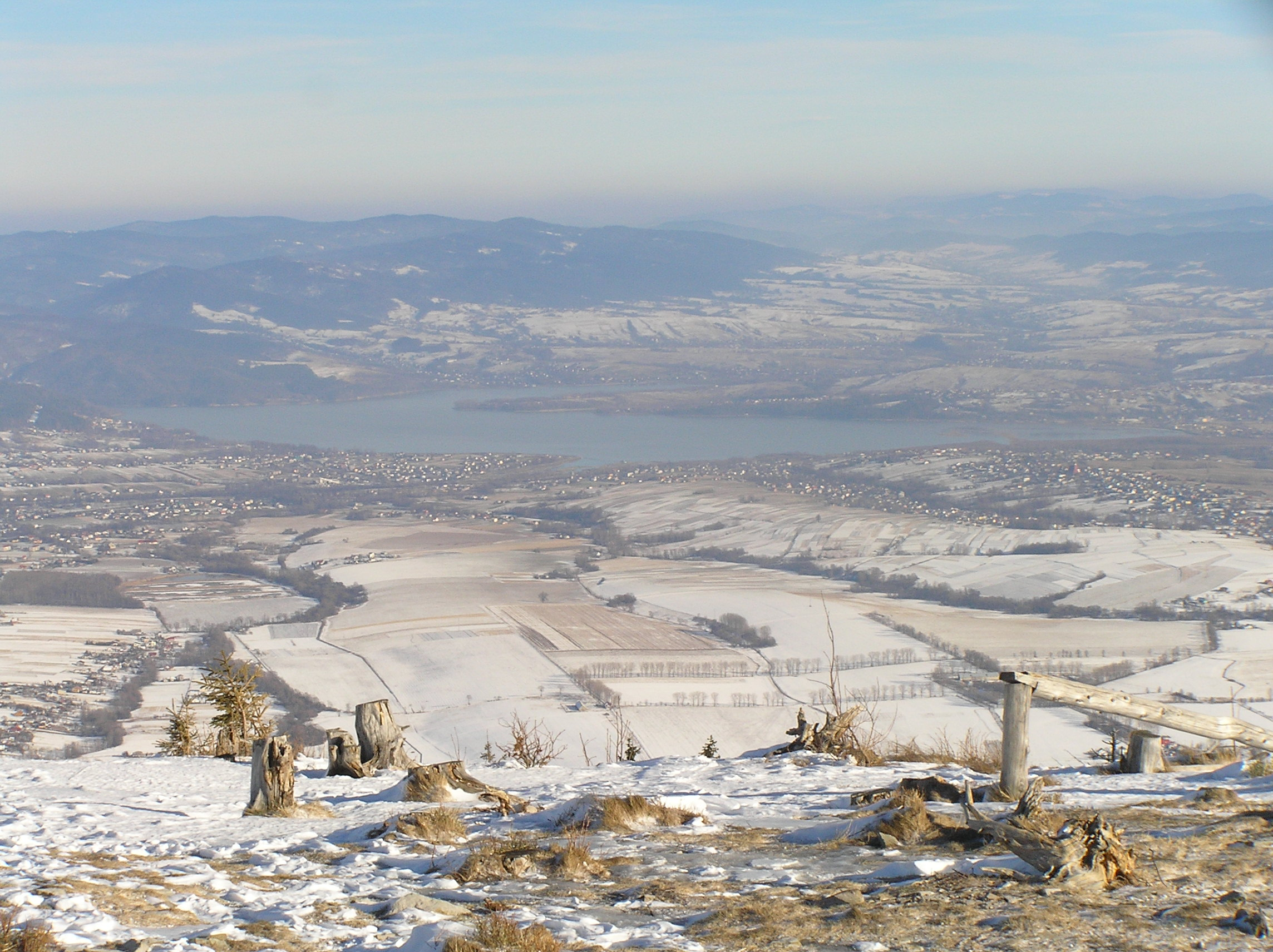 The Żywieckie Lake. A view from the Skrzyczne.